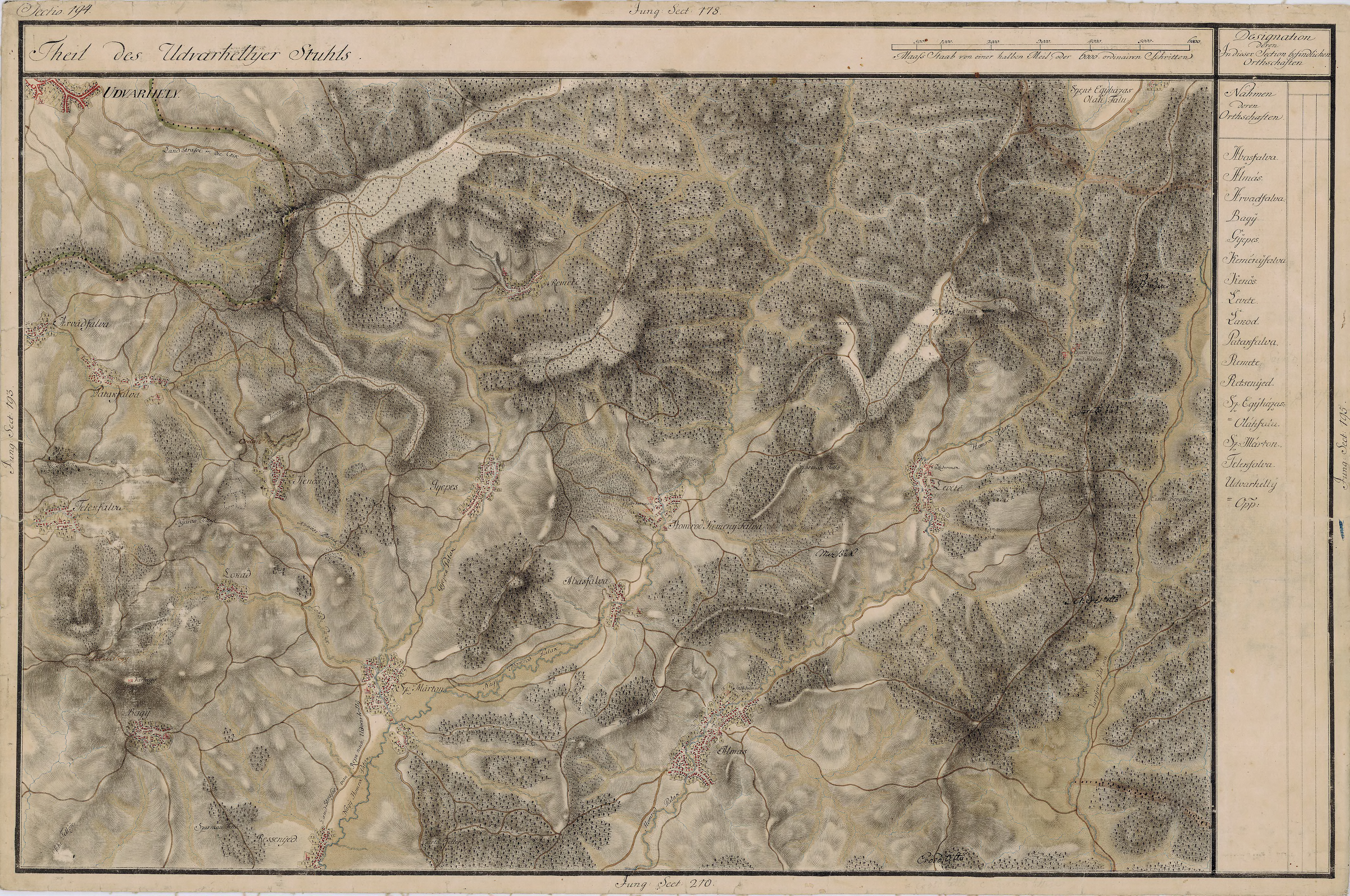 Grand Duchy of Transylvania, 1769-1773. Josephinische Landaufnahme pg.194